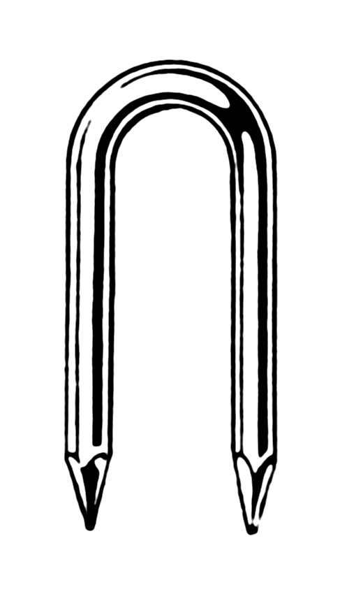 Line art drawing of a staple.